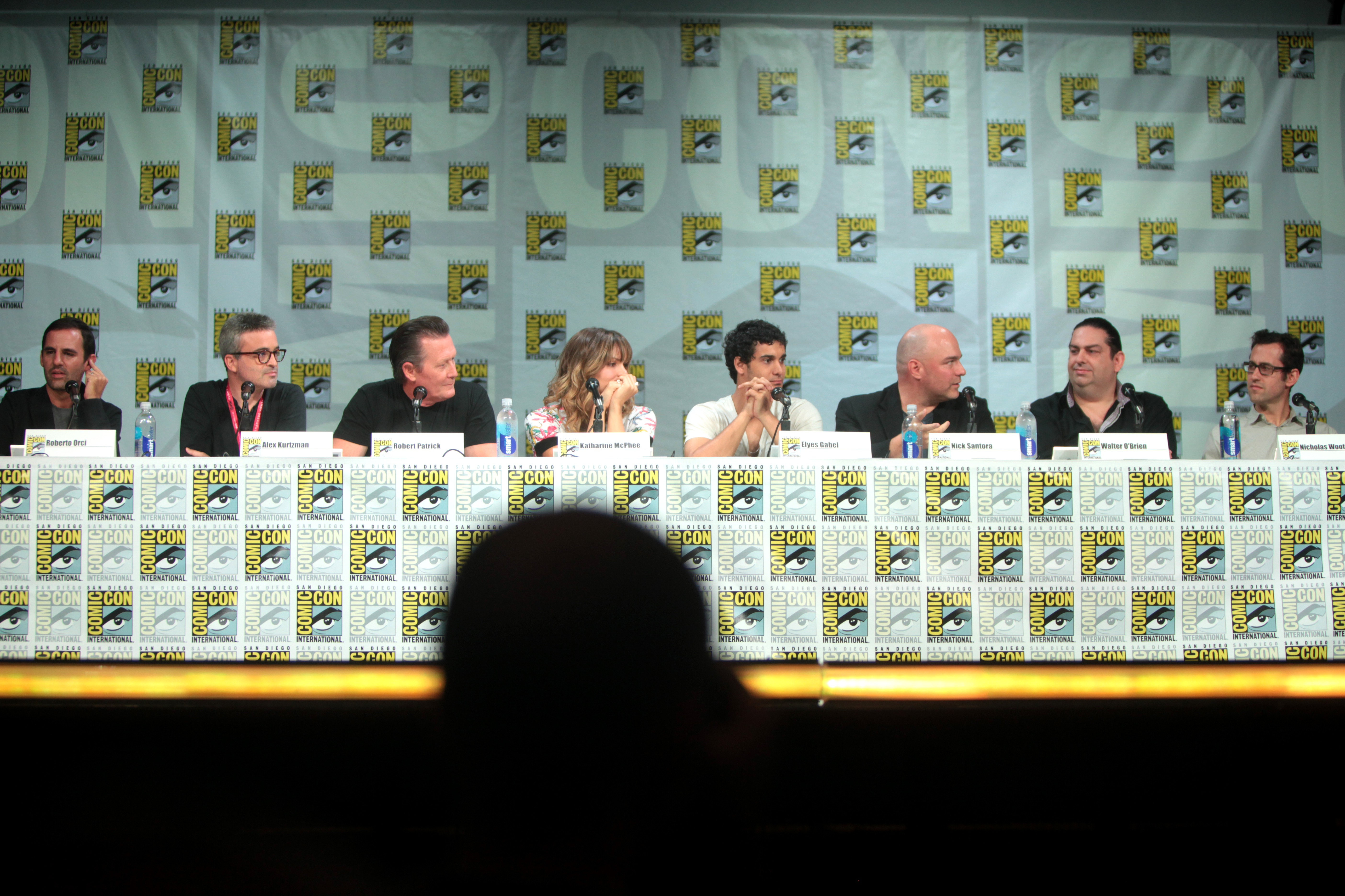 Roberto Orci, Alex Kurtzman, Robert Patrick, Katharine McPhee, Elyes Gabel, Nick Santora, Walter O'Brien and Nicholas Wootton speaking at the 2014 San Diego Comic Con International, for "Scorpion", at the San Diego Convention Center in San Diego, California.